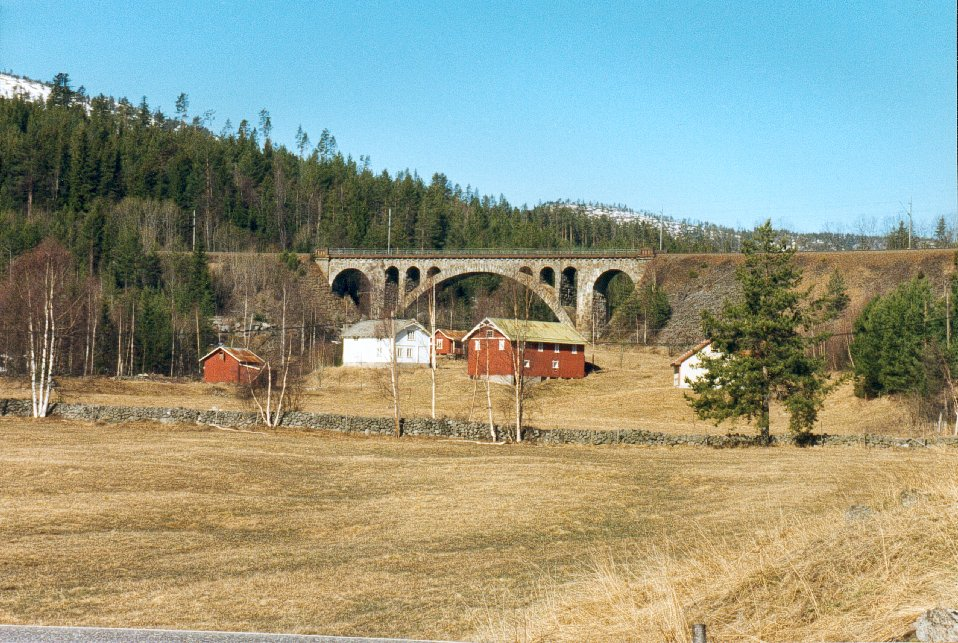 Meheia railway bridge over the river Hengselva, Buskerud, Norway. Built ca. 1917.